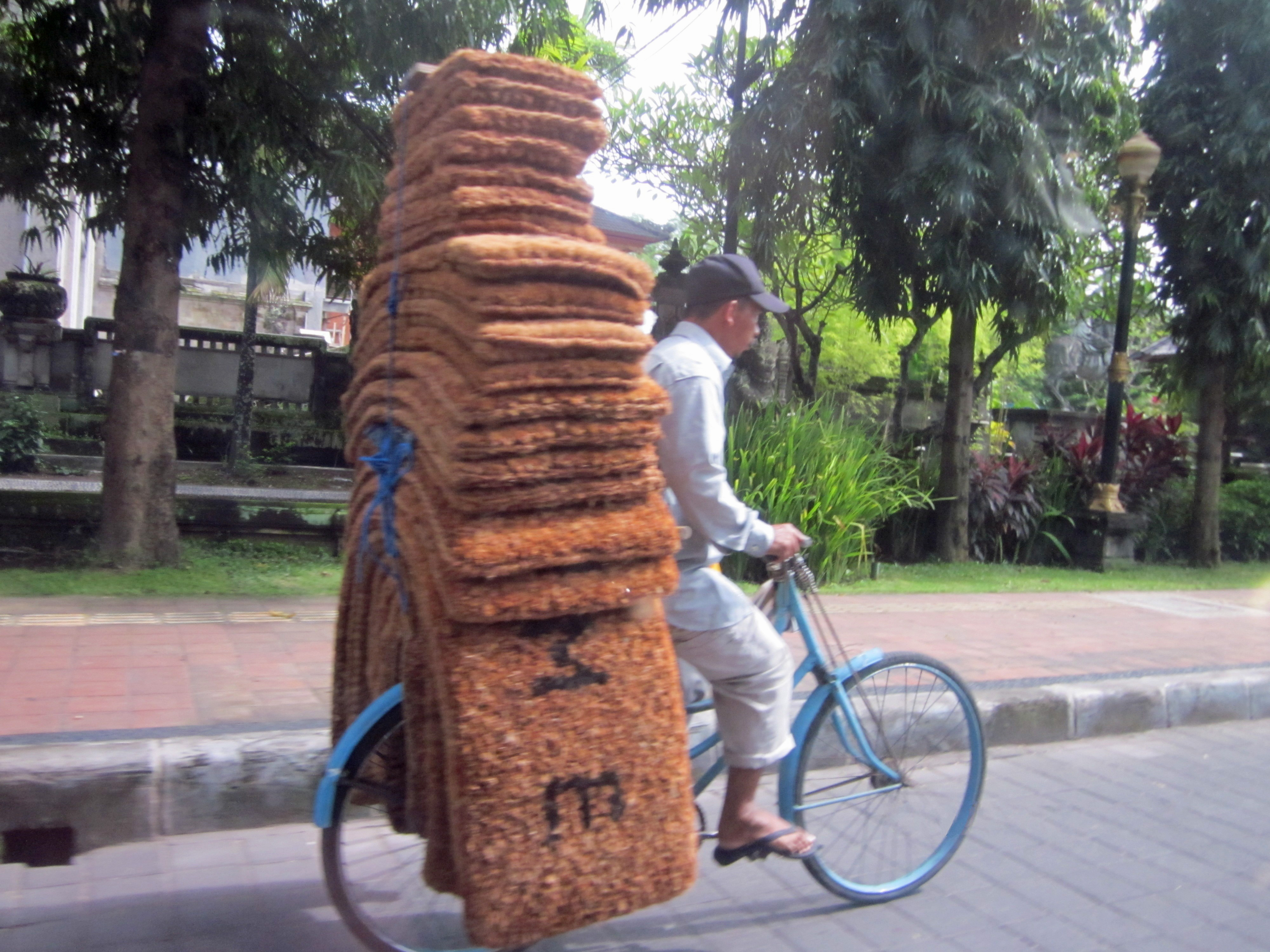 Doormat made of coconuts fibre.